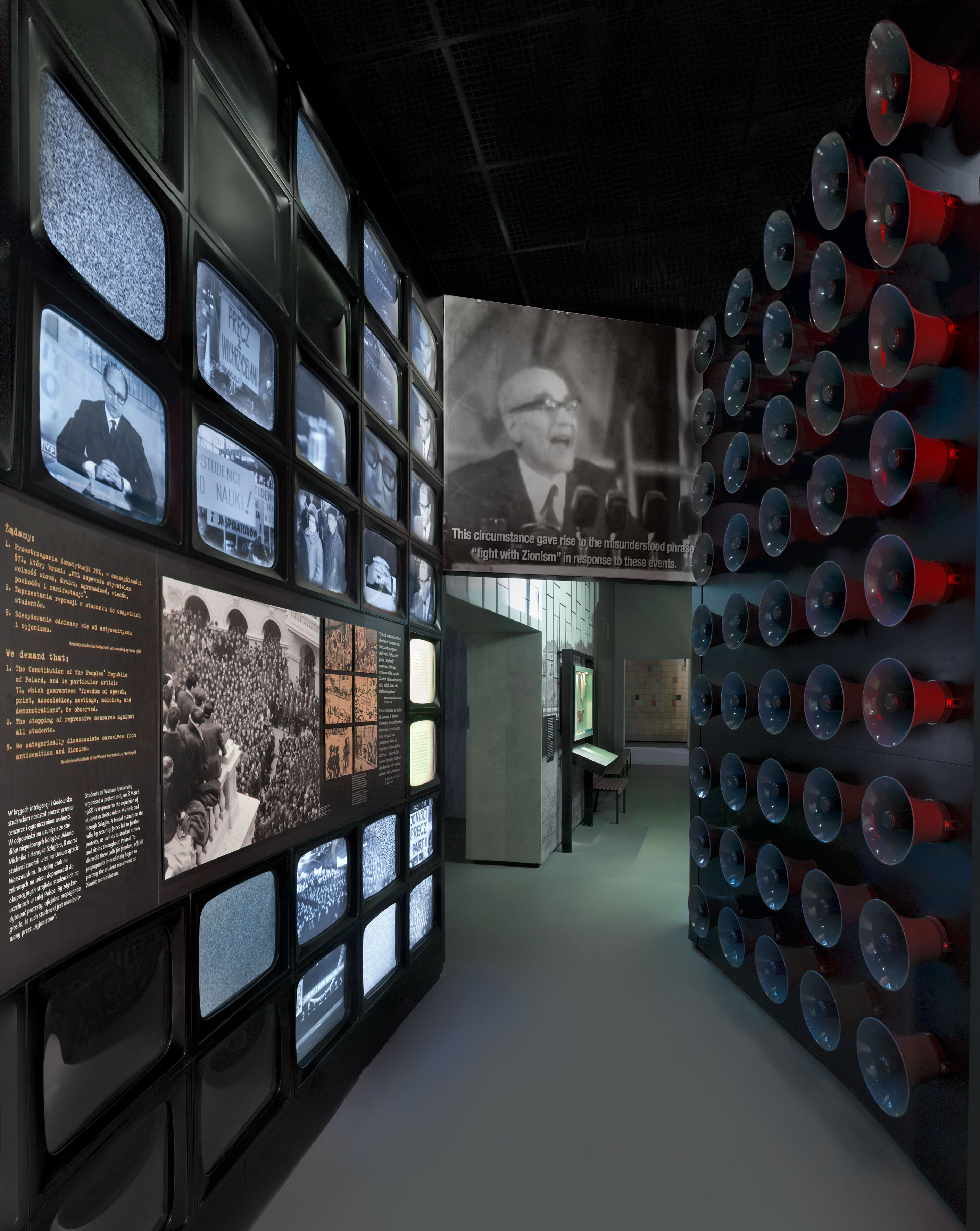 Main exhibition of the Museum of the History of Polish Jews in Warsaw. "Postwar" gallery